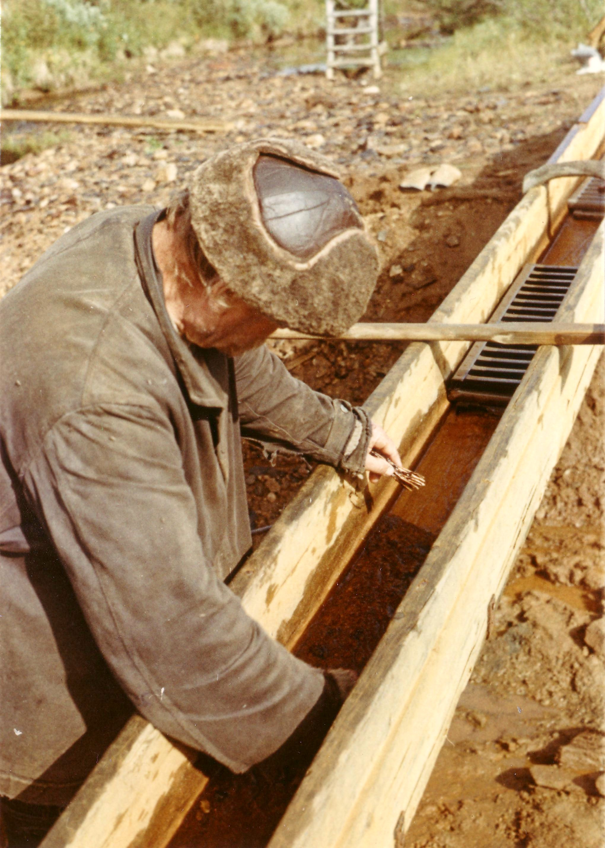 Gold-washing near Lemmenjoki (Lappland)